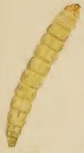 Stainton’s Natural History of the Tineina (1855–1873): Aristaea pavoniella